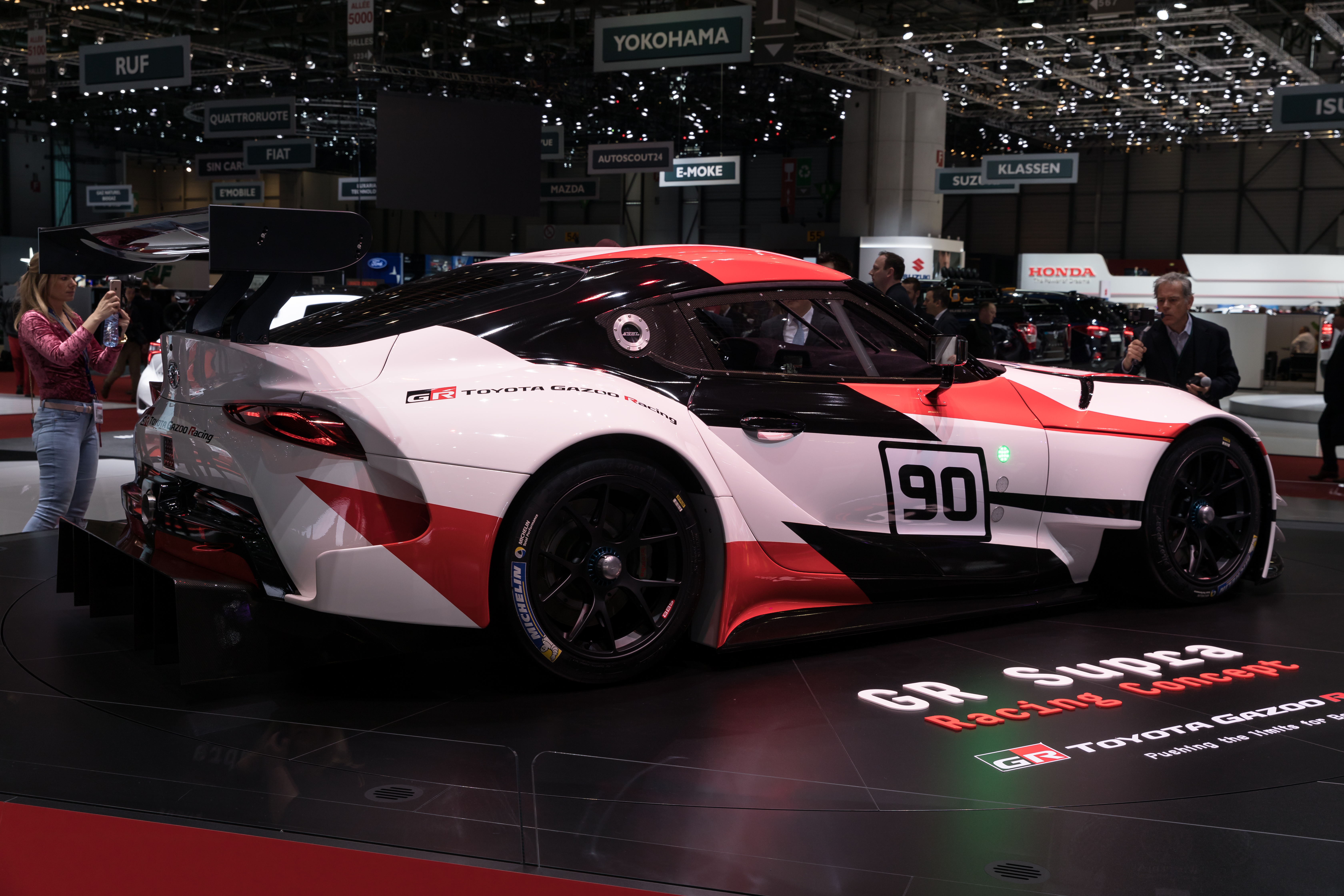 Geneva International Motor Show 2018